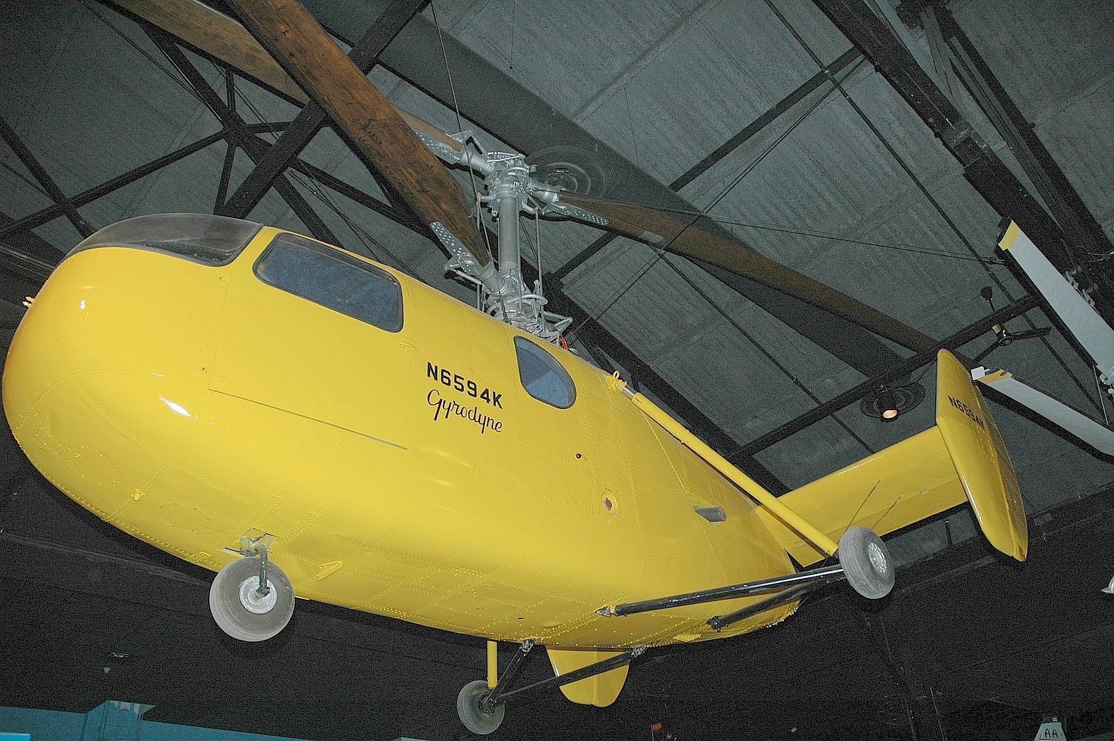 On display at the Cradle of Aviation Museum, Garden City, Long Island, New York.